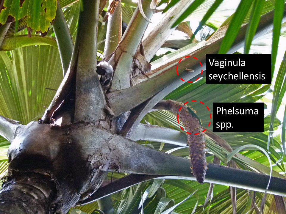 Two endemic species on 'Koko De Mer' in Vallee De Mai (March 2016)